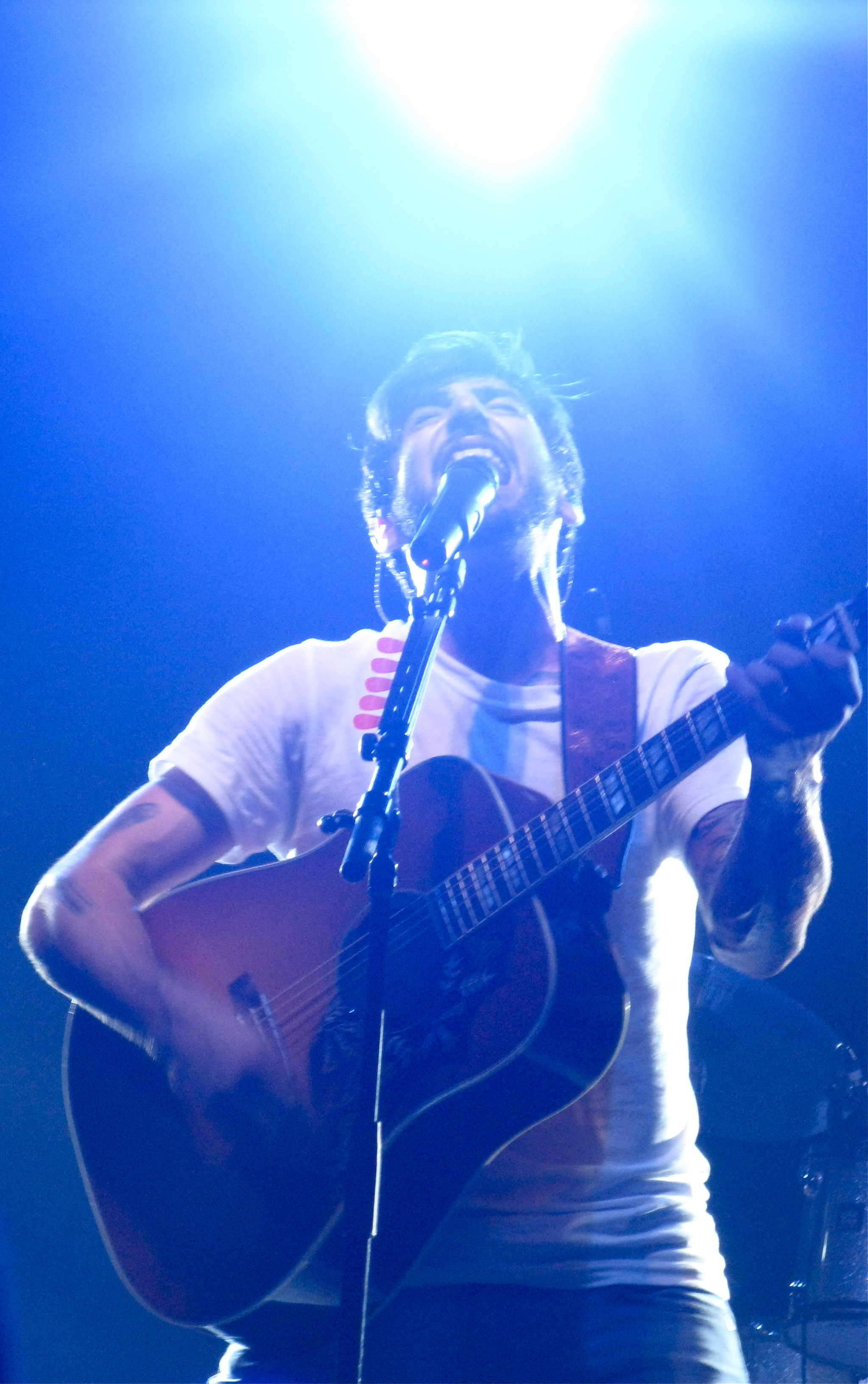 Jacob Hoggard, the lead singer of Hedley playing a guitar on stage.